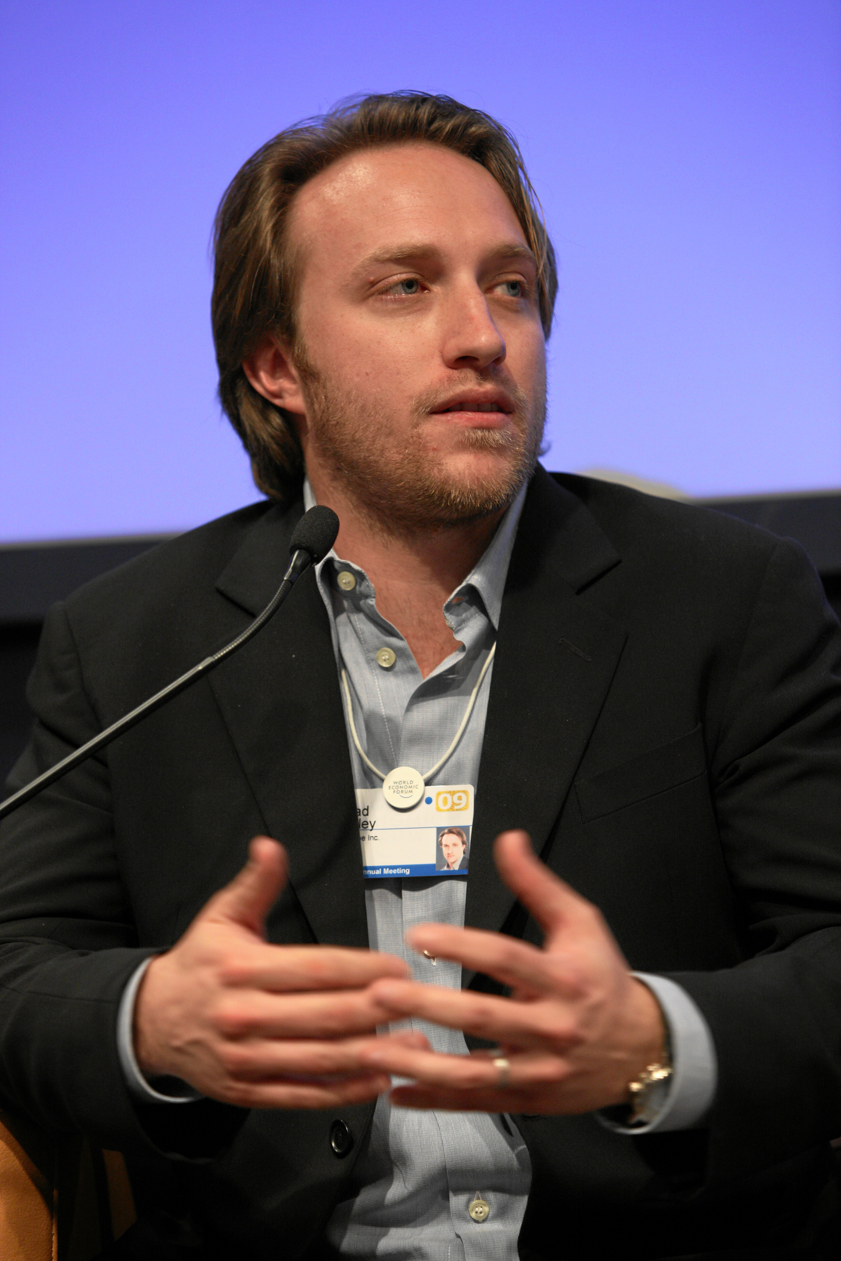 DAVOS-KLOSTERS/SWITZERLAND, 30JAN09 - Chad Hurley, Co-Founder and Chief Executive Officer, YouTube, USA, speaks during the session 'The Next Digital Experience' at the Annual Meeting 2009 of the World Economic Forum in Davos, Switzerland, January 30, 2009. Copyright by World Economic Forum by Remy Steinegger